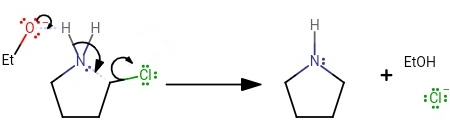 This chemical can be made by using a strong base and 4-chlorobutan-1-amine